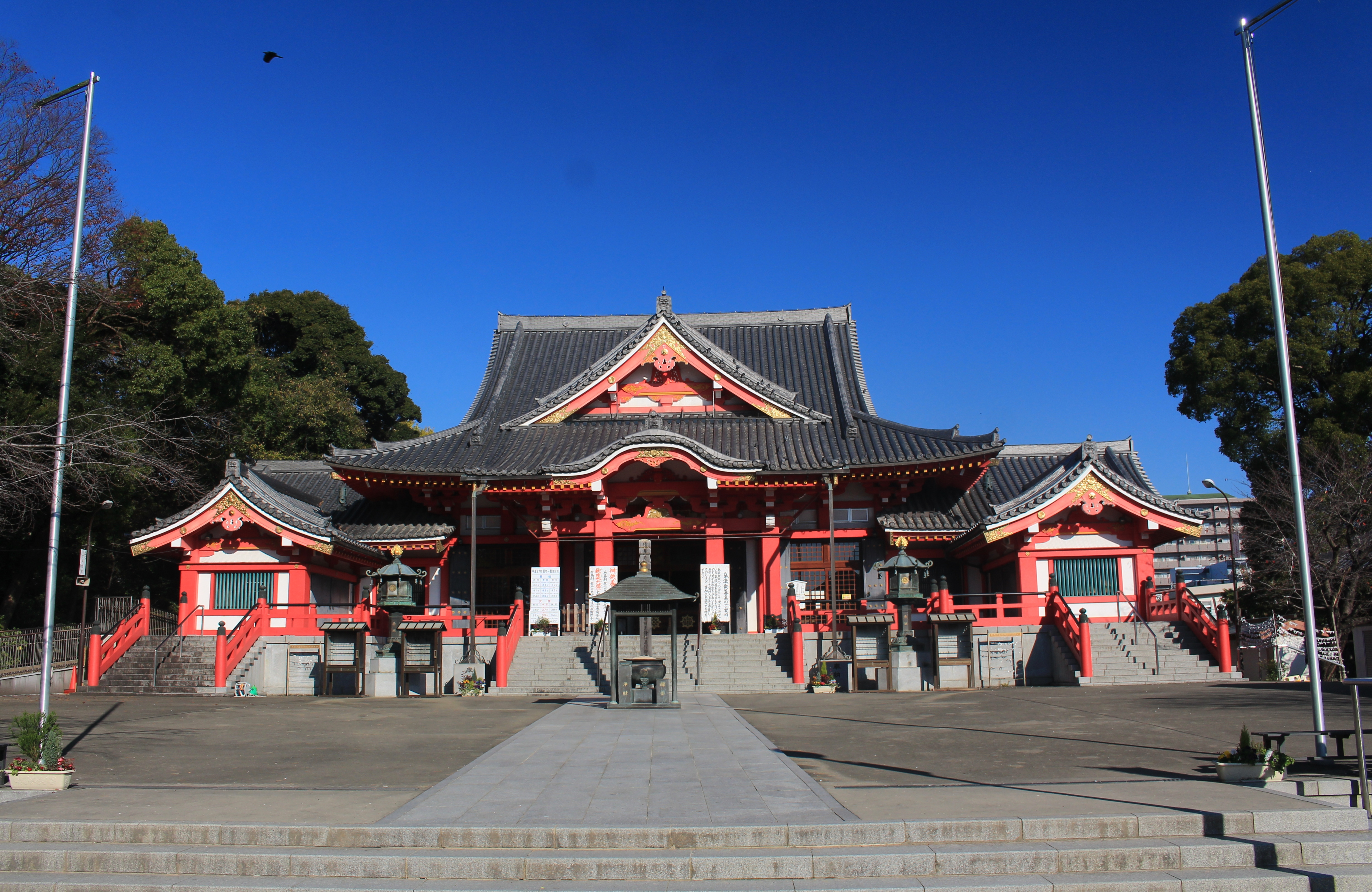 Hondō of Jimokuji in Ama, Aichi prefcture, Japan.